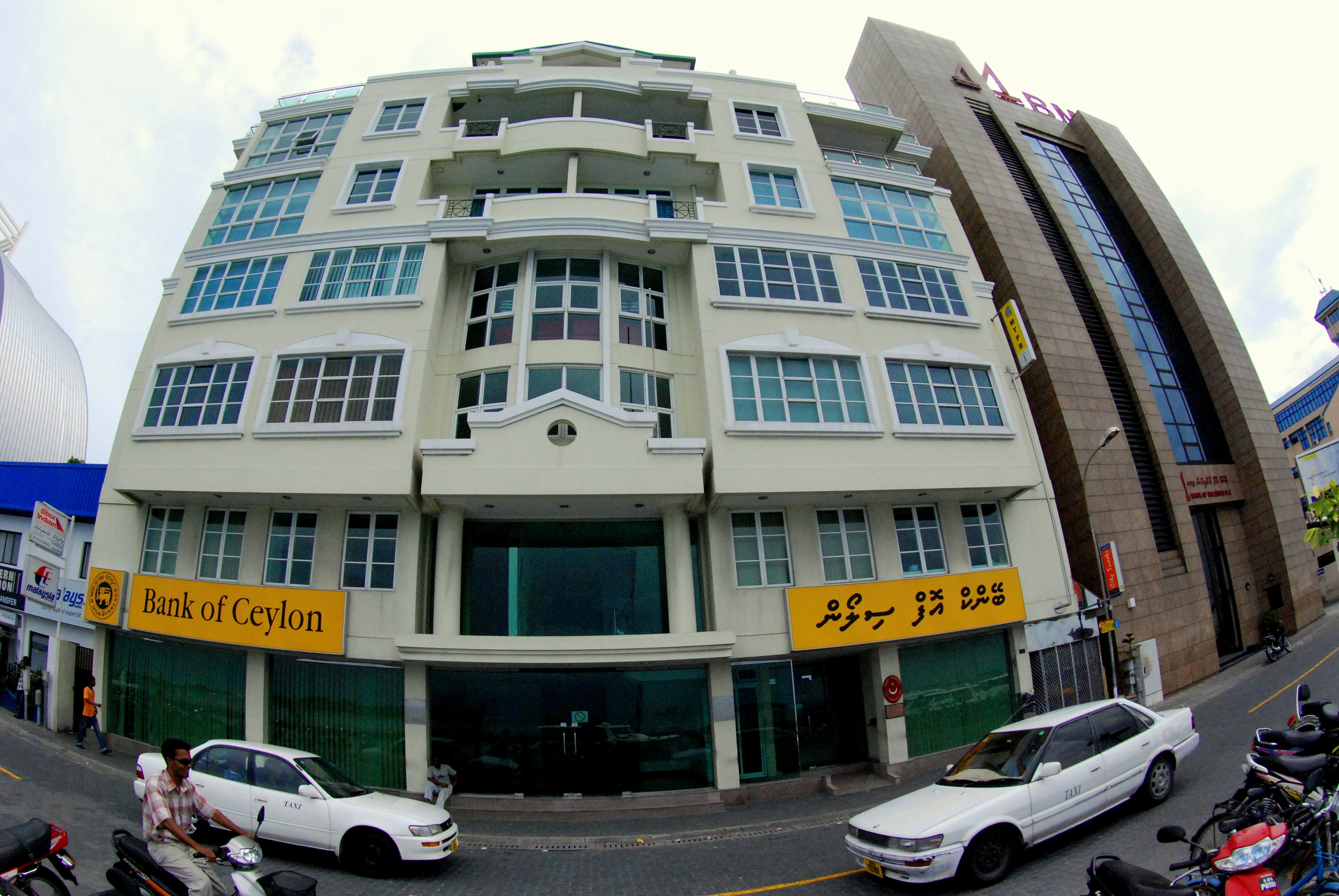 Bank of Ceylon and Bank of Maldives in Male